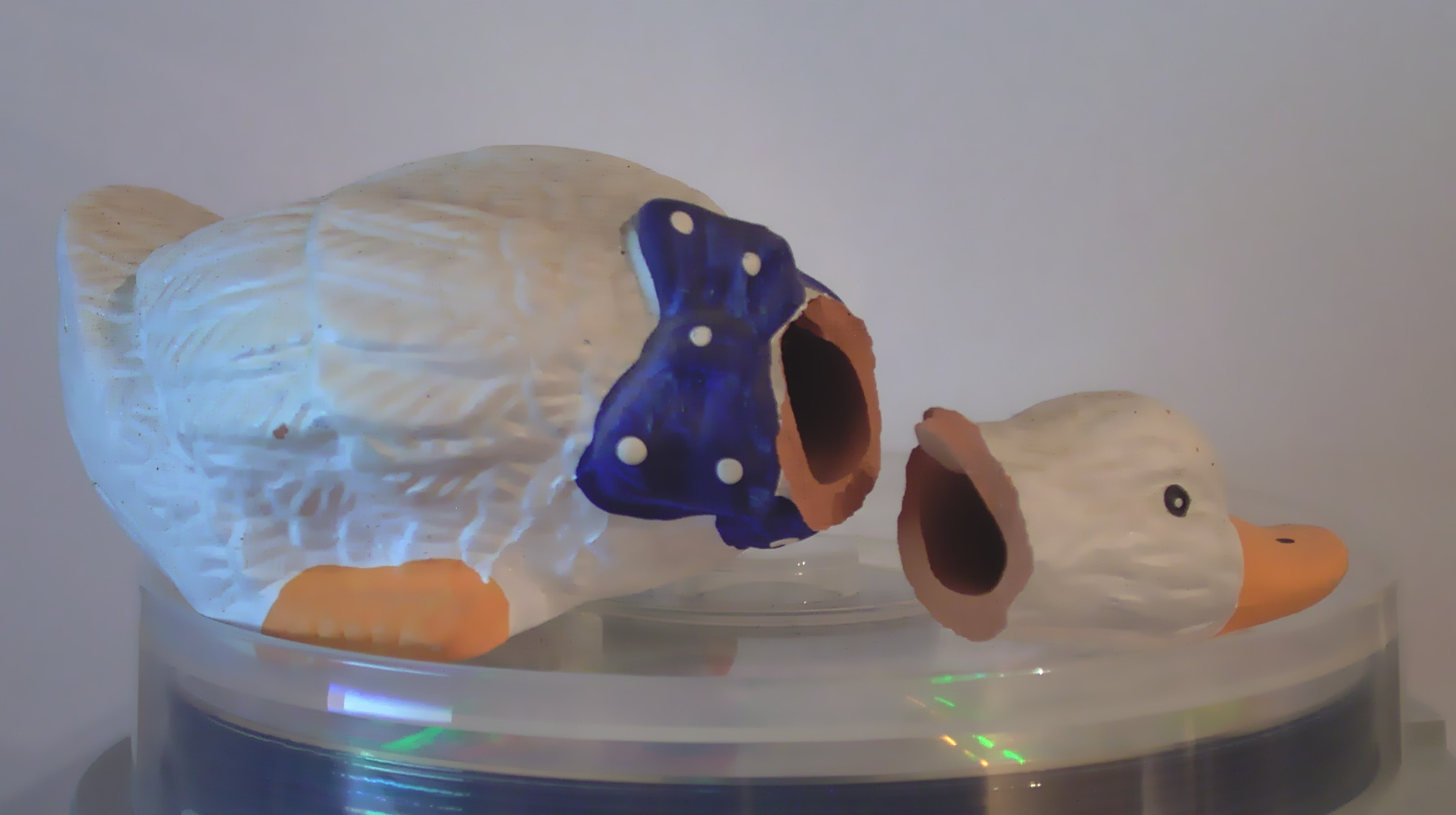 A terracota Animal, which got broken